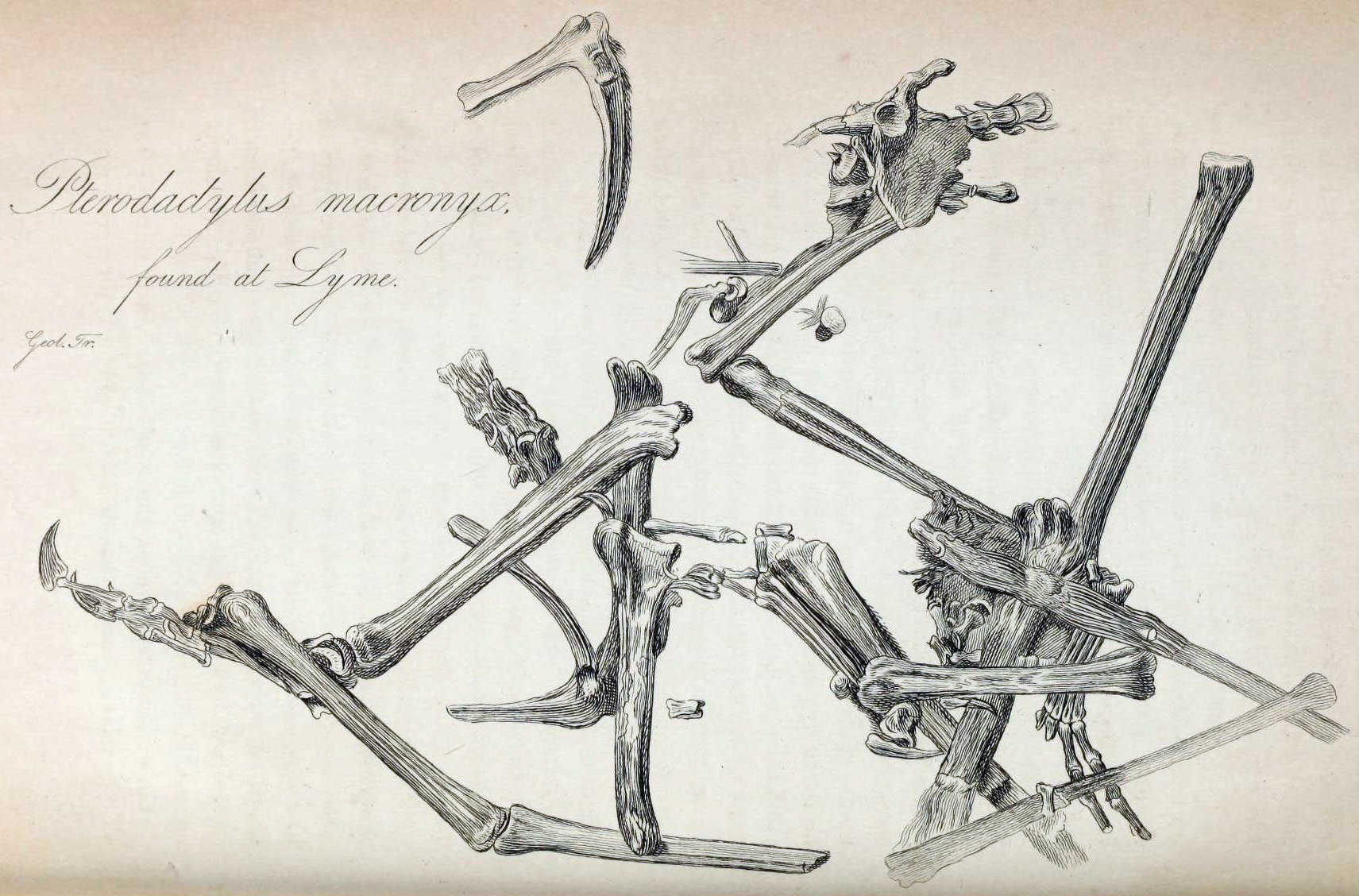 Holotype of Dimorphodon (Pterodactylus) macronyx, NHMUK PV R 1034. The fossil remains of the animal kingdom London :Whittaker, Treacher,1830.